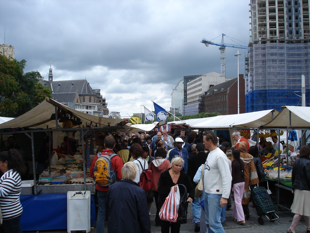 Scene of the Blaak open market of Rotterdam which takes place on Tuesday and Saturday every week